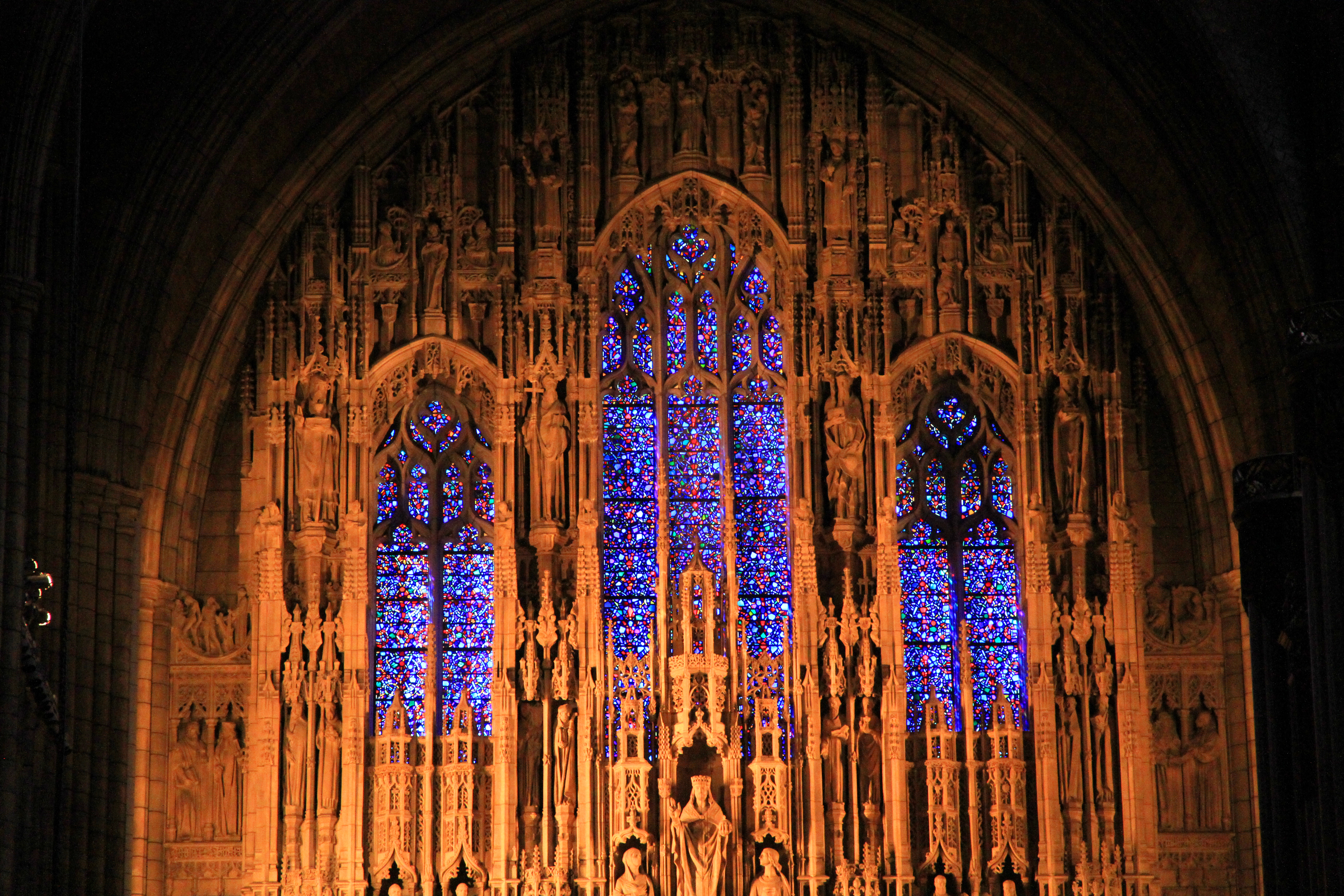 St Thomas Church